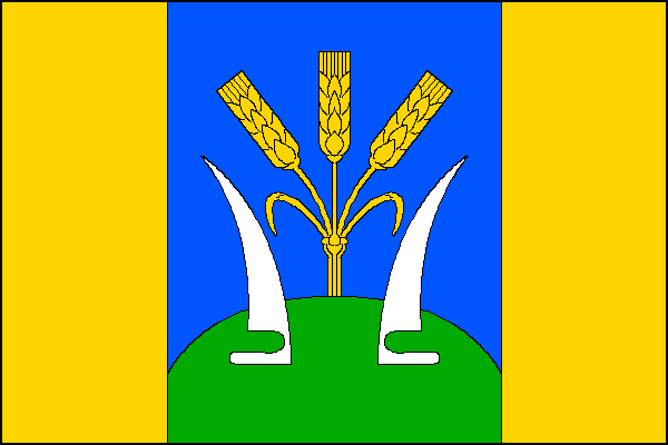 Municipal flag of Horka I village, Kutná Hora District, Czech Republic.